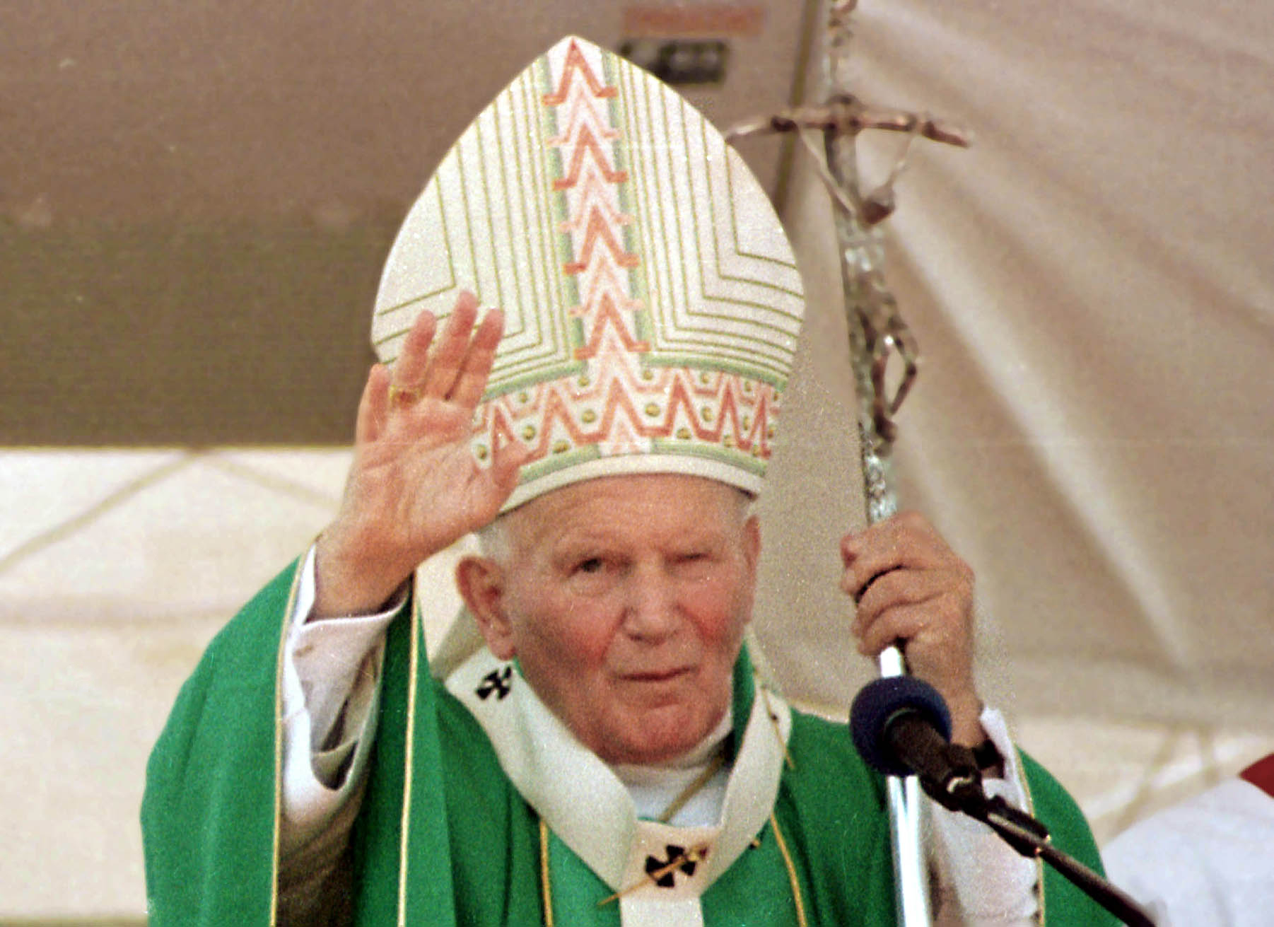 Pope John Paul II in Brazil.